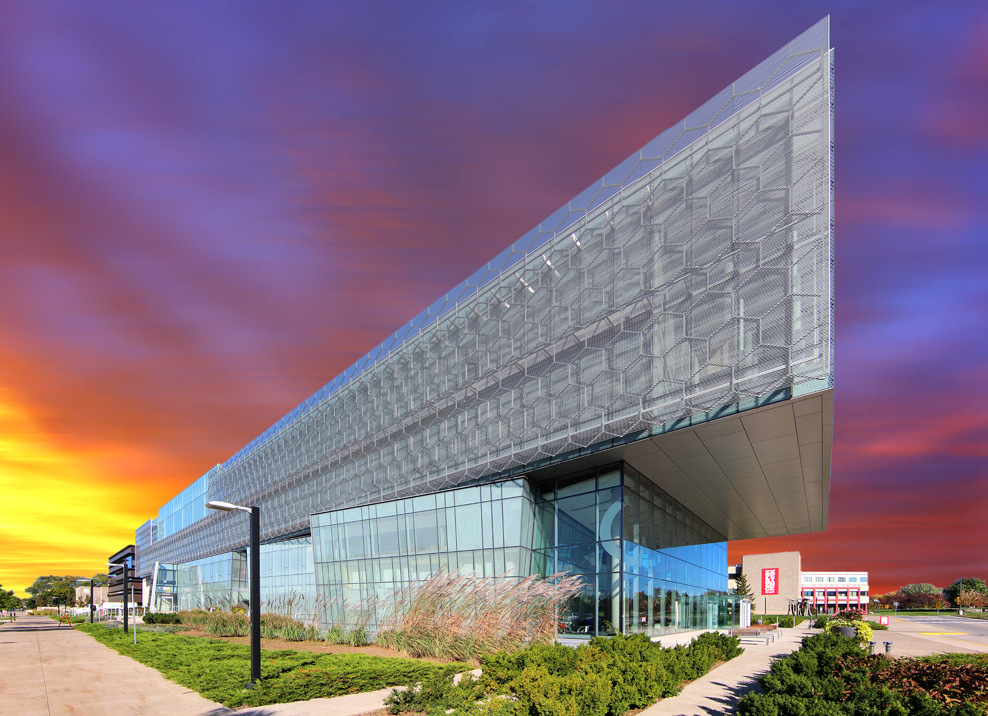 Brock University Ontario